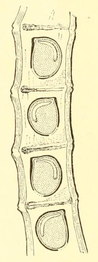 Illustration of Hypecoum procumbens from H. Baillon [translated by M. Hartog] The natural history of plants. - Vol. 3. - London, 1871.